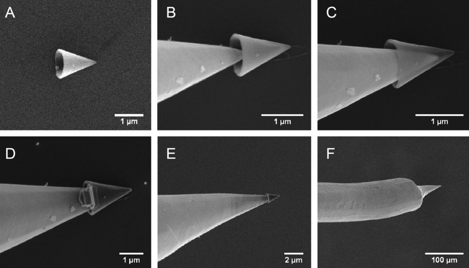 Encapsulation of a gold nanotip with a carbon nanocone. (A) One isolated multiwalled carbon nanocone (MWCNC) on Si substrate; (B-D) Approaching and soldering MWCNC on a gold tip; (E, F) Zoom-out views showing the Au nanotip on a larger scale; In (F) the nanocone is no longer seen.